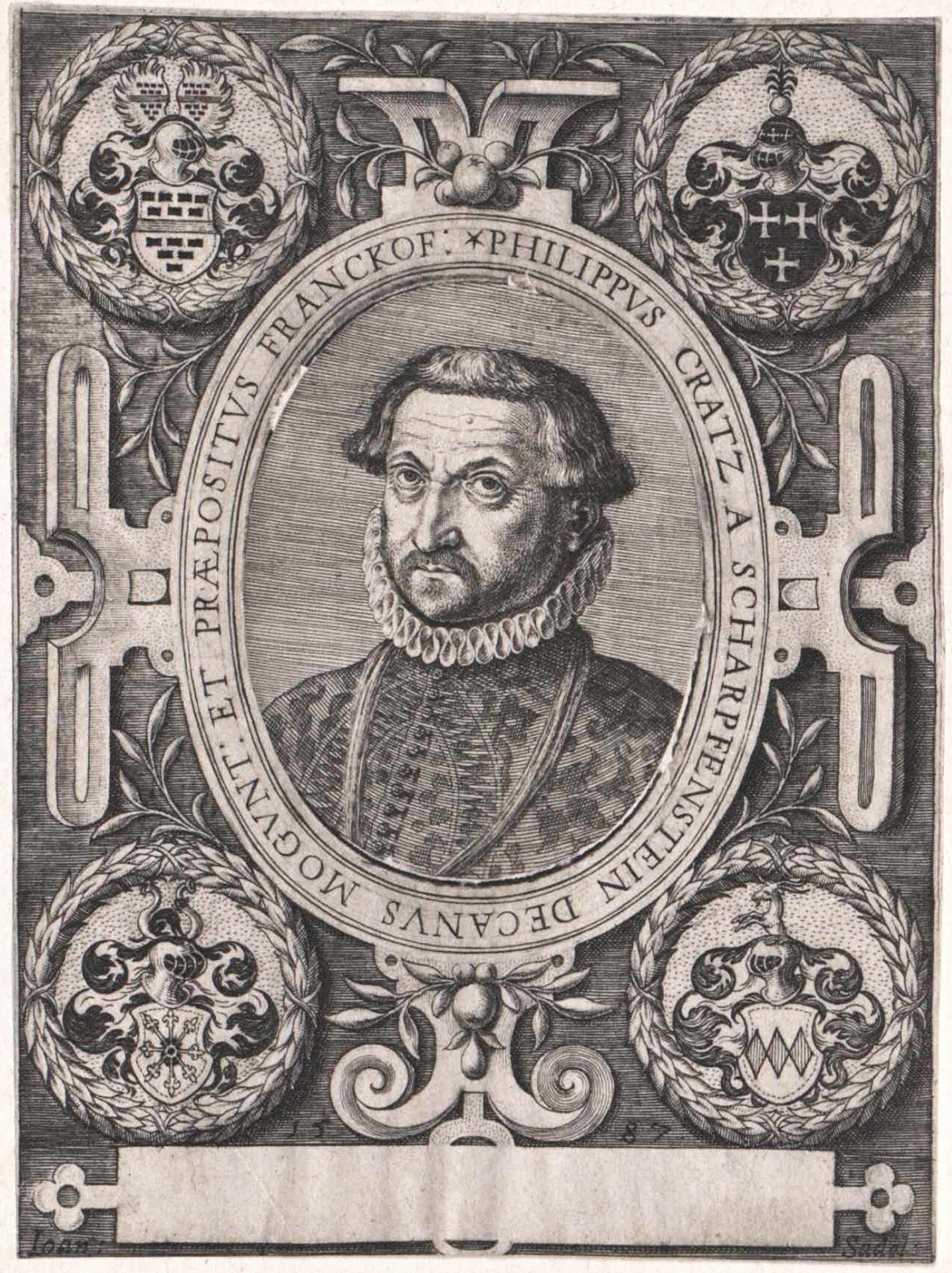 Philipp Kratz von Scharfenstein (1540-1604), als Mainzer Domdekan, 1587, später auch Bischof von Worms